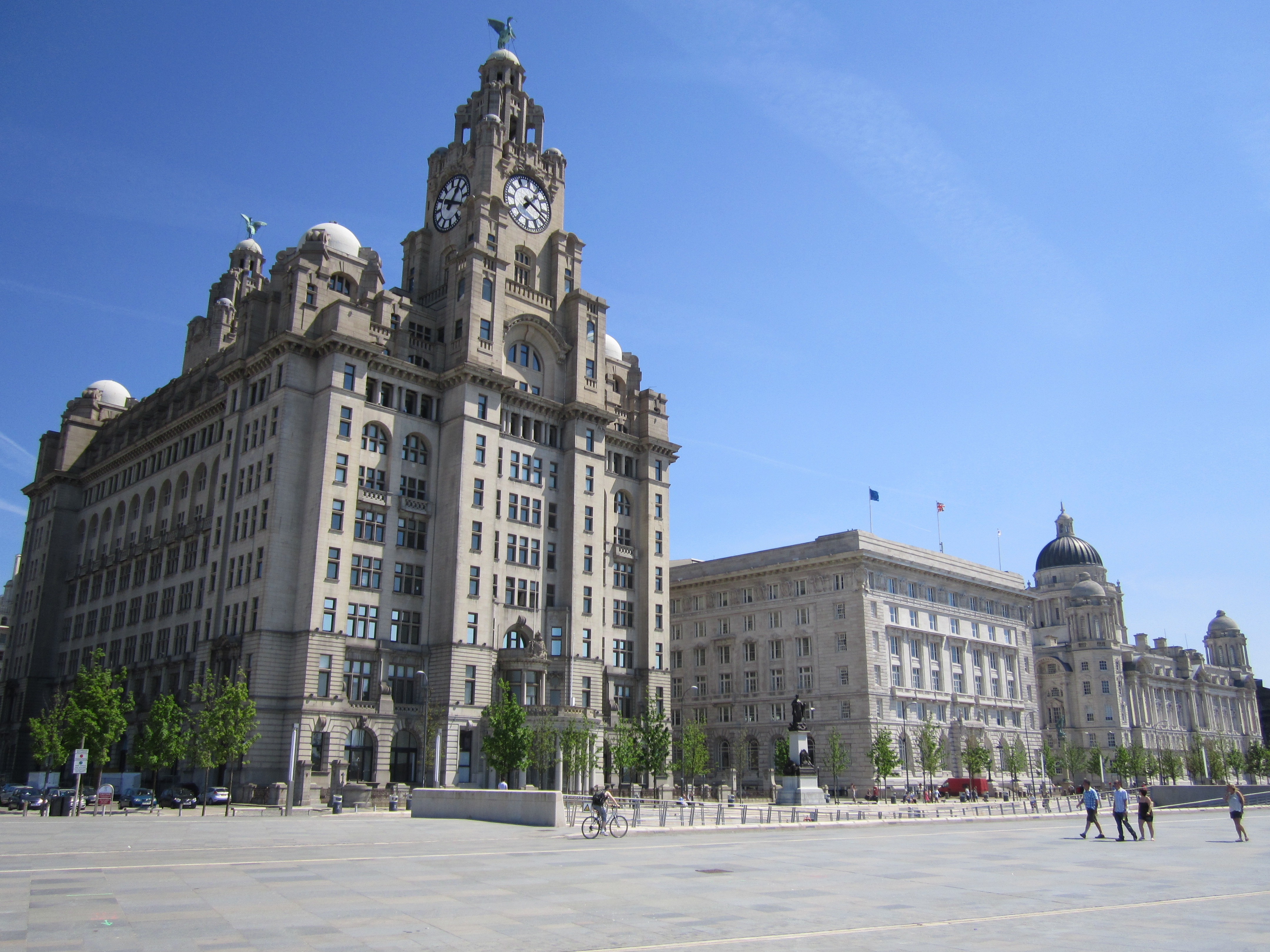 The Three Graces, Liverpool, England.